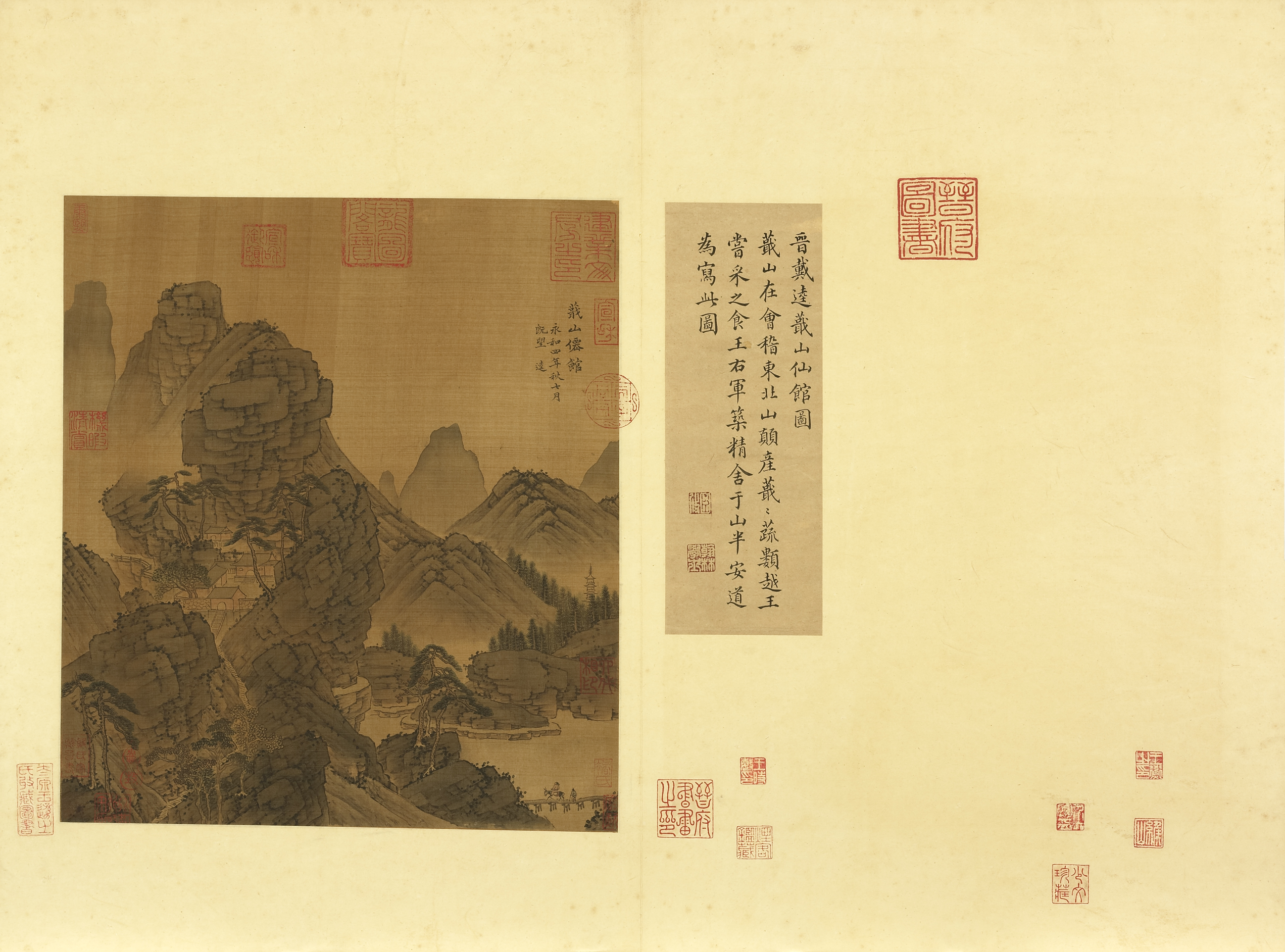 相傳戴逵所繪《蕺山仙館圖》